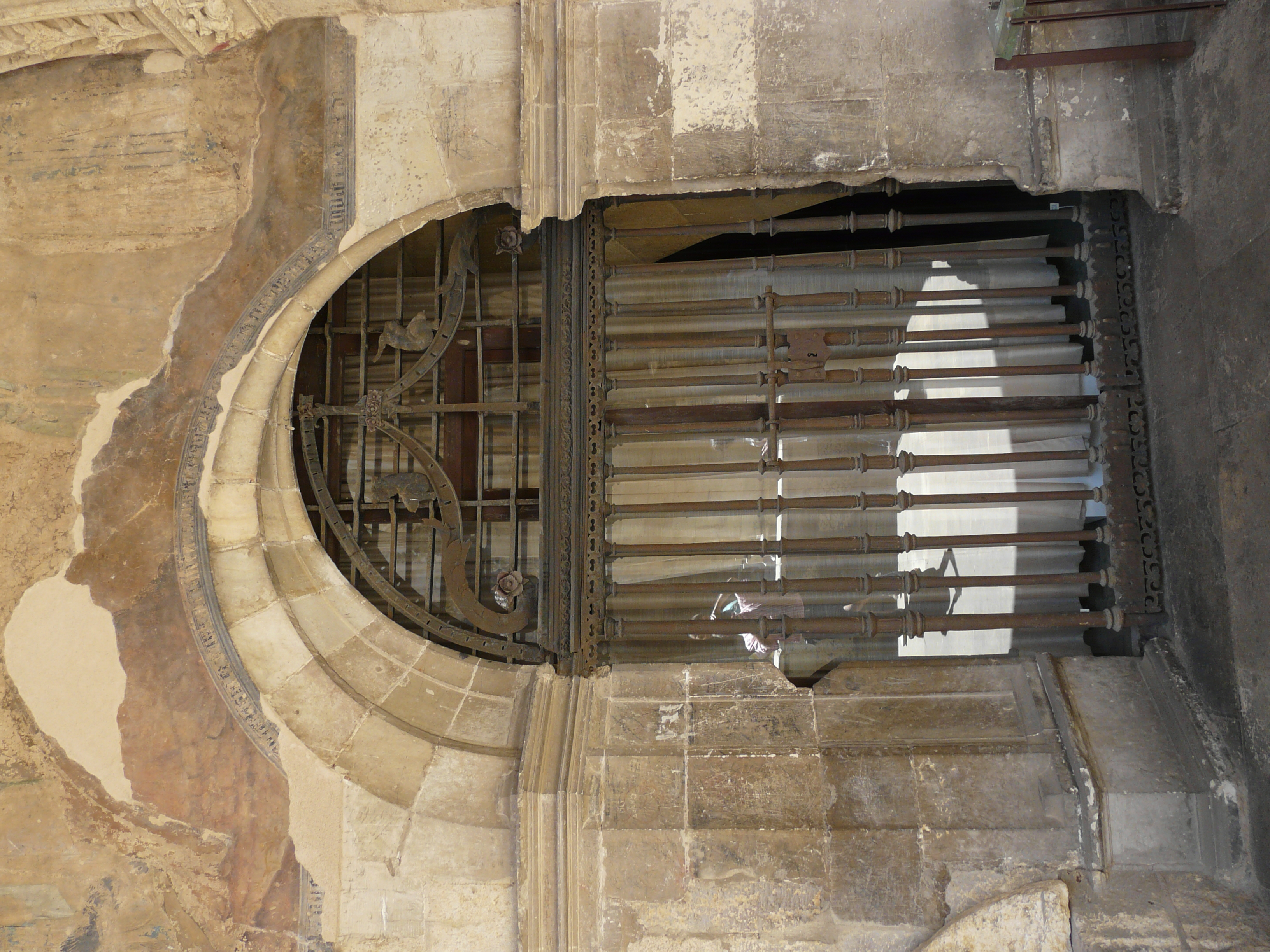 Door ("esviaje" door) in the cloister of León Cathedral (Castile and León), Spain